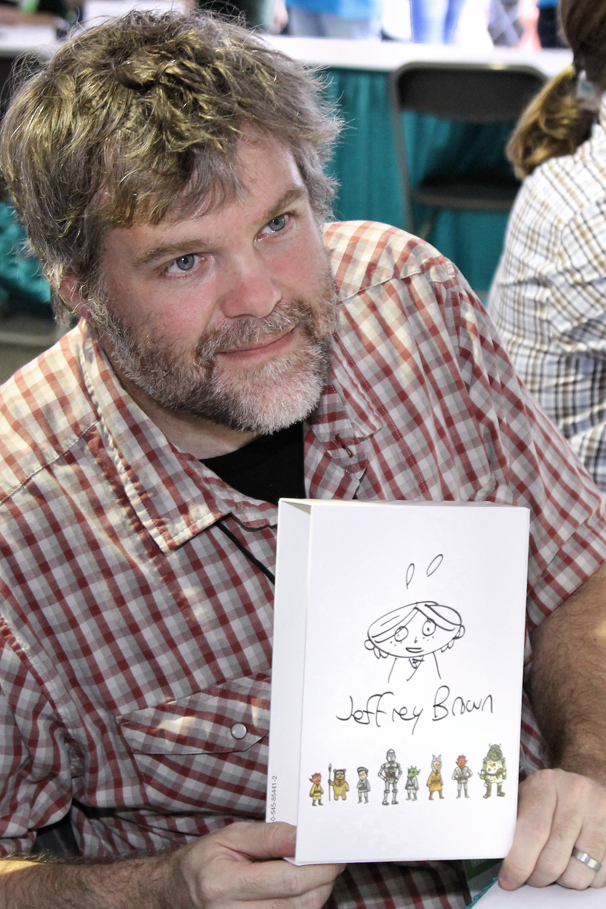 Author Jeffrey Brown at the 2017 Texas Book Festival.